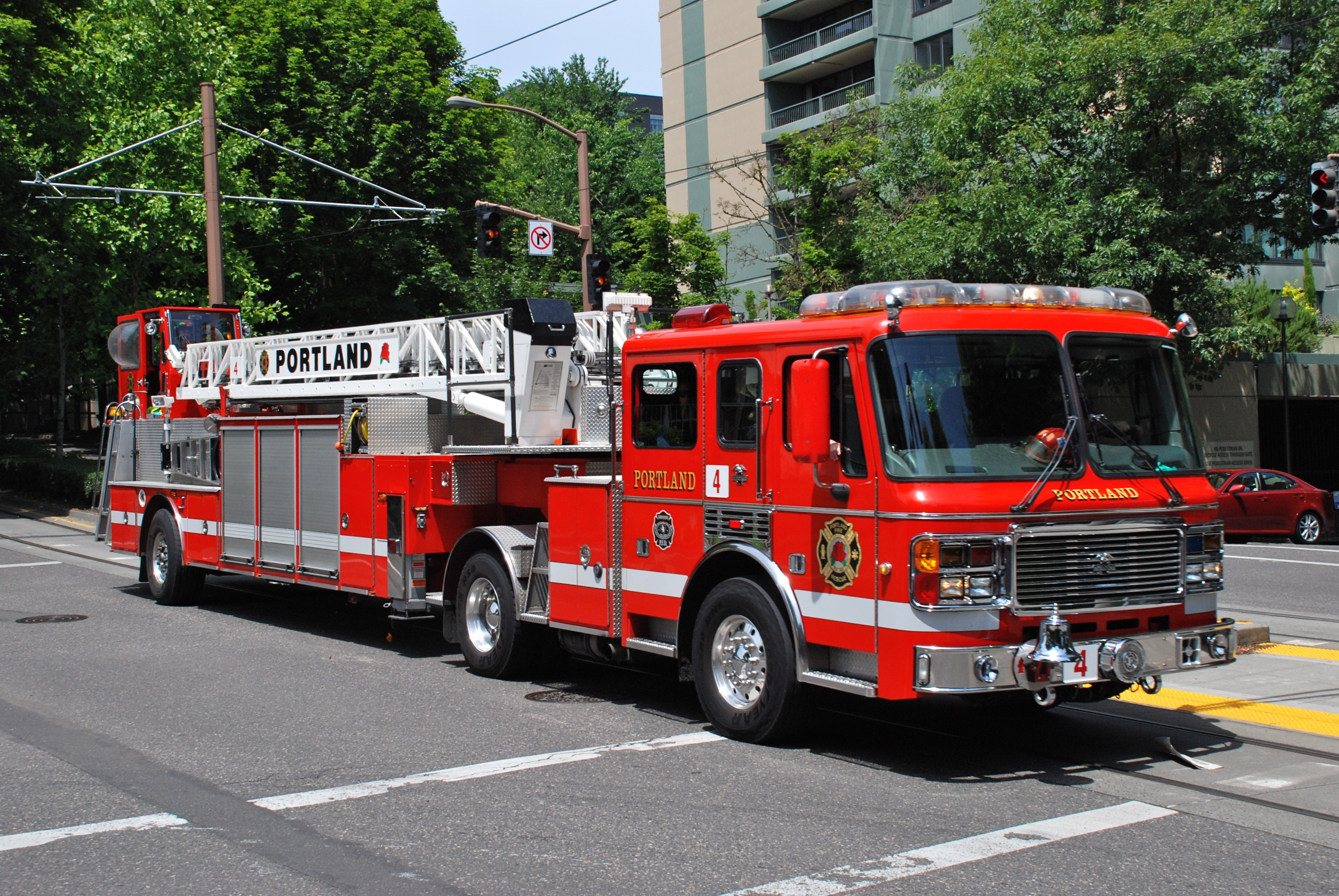 Truck 4 of Portland Fire & Rescue, the fire department of Portland, Oregon. In this photo, it was headed east on SW Harrison Street at First Avenue, in the southern part of downtown.